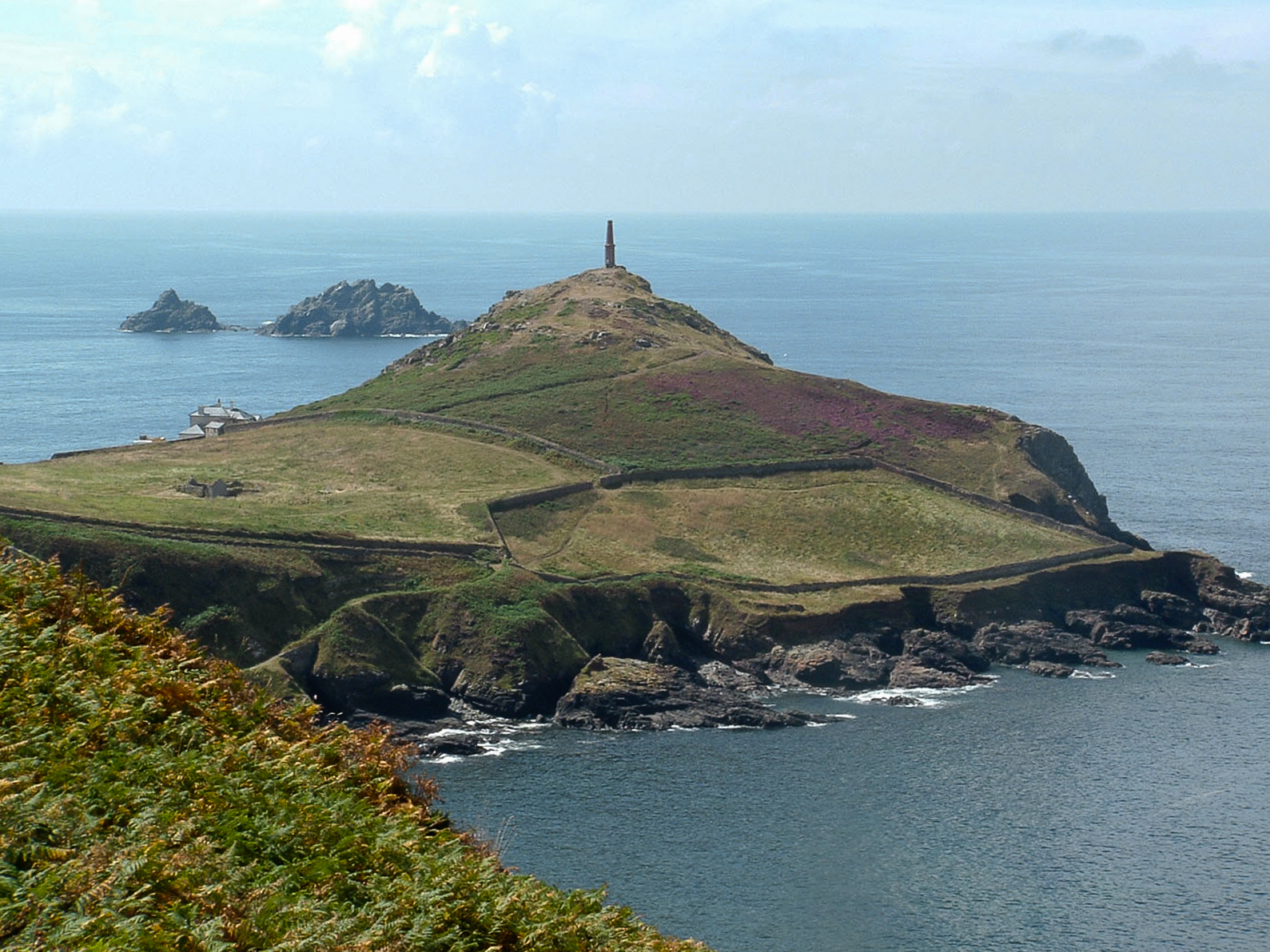 Cape Cornwall located in the southwesternmost parts of England. Heinz Monument is visible in the centre. It commemorates the purchase of Cape Cornwall for the nation by H. J. Heinz Company. The ruins of St. Helens Oratory also can be seen in the left. The two offshore rocks called Brisons are located approximately one mile southwest of the cape.